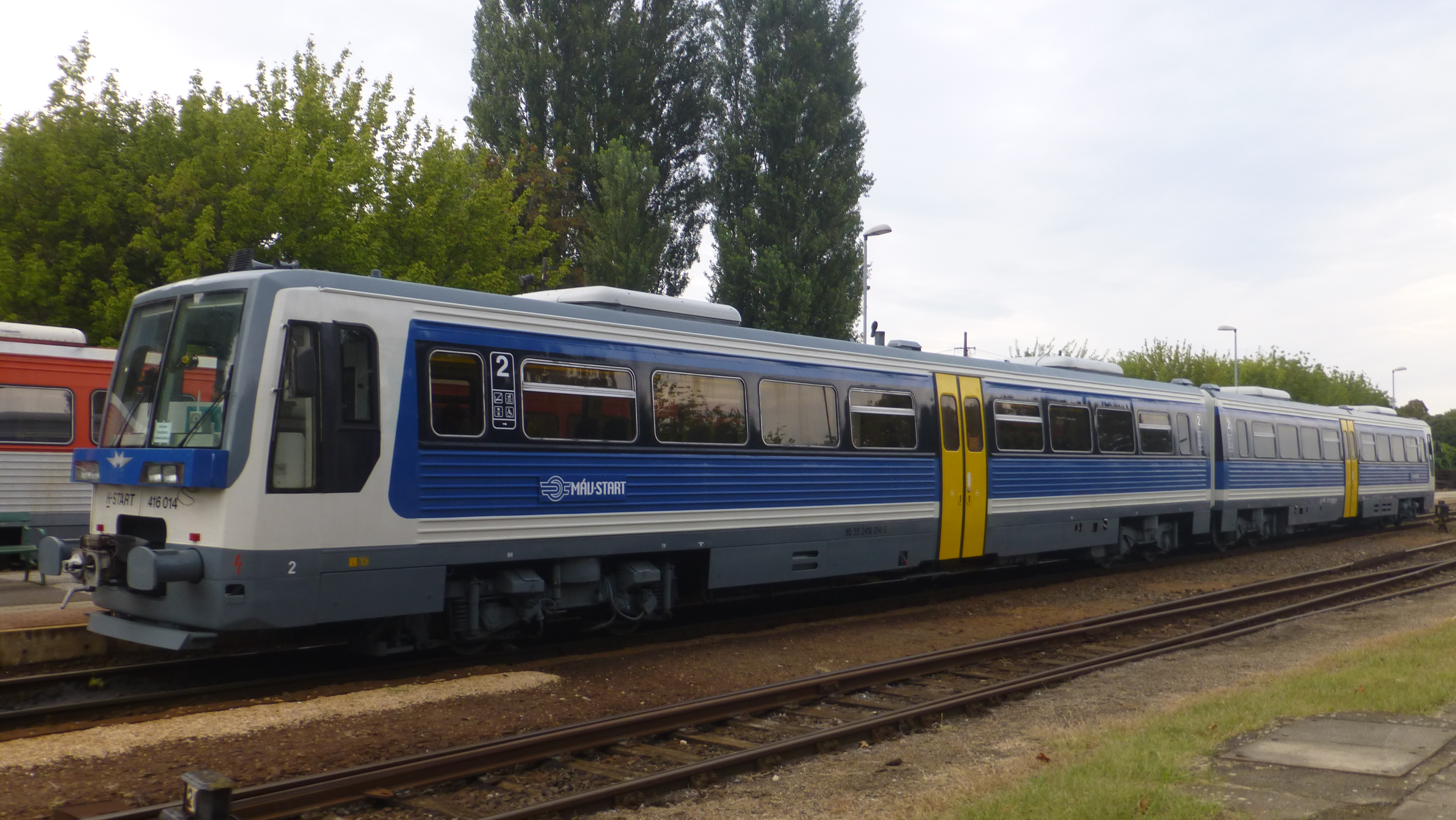 MÁV-Start train no. 7703 in Szeged-Rókus station. The train is running in the new and unified "MÁV-blue" livery. (The original red-white livery is in the background.)